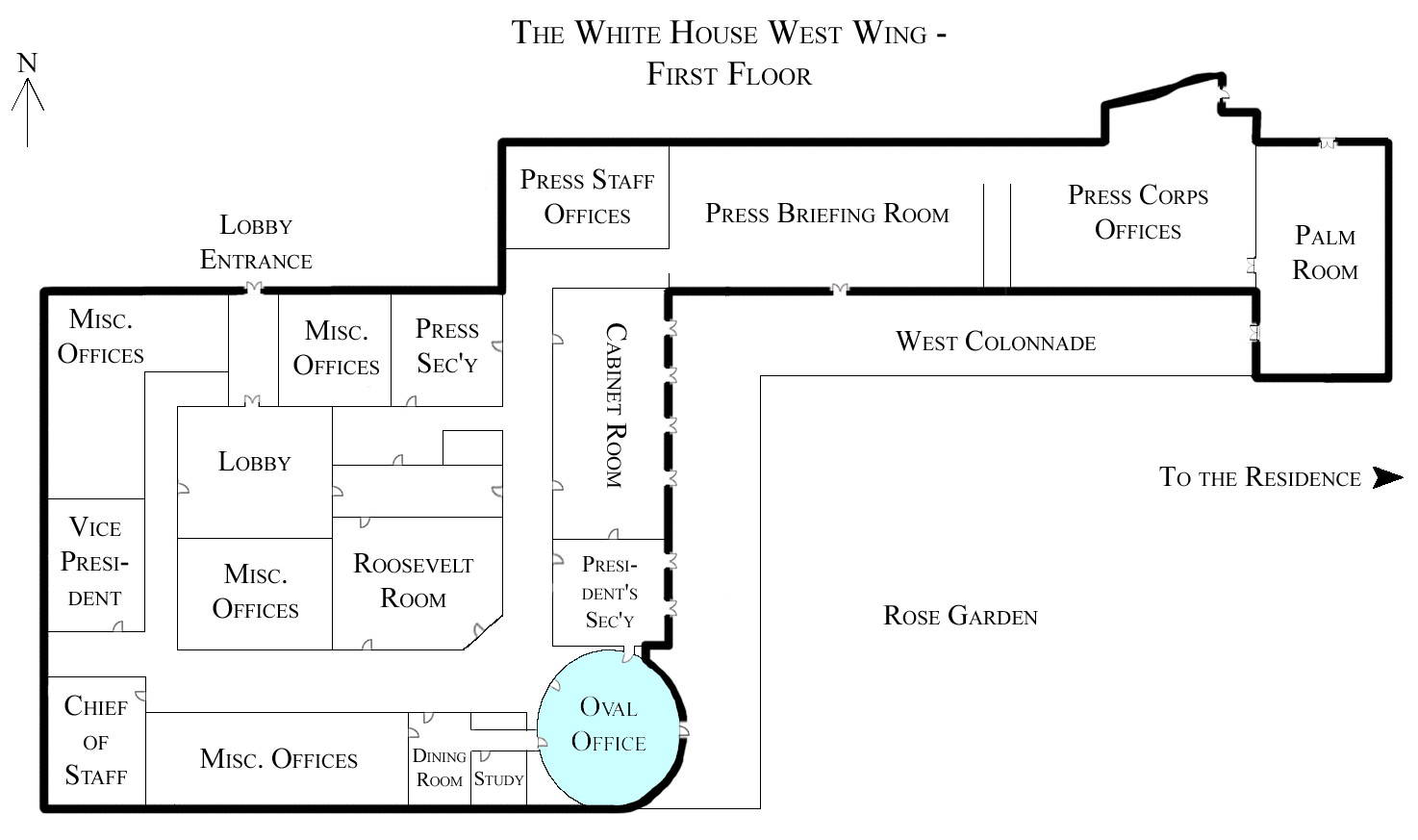 A floorplan of the first floor of the West Wing of the White House with the Oval Office highlighted. Note that, depending on the administration, some positions (V.P., Chief of Staff, etc.) may be located in different offices than are shown here. Image is not to scale.